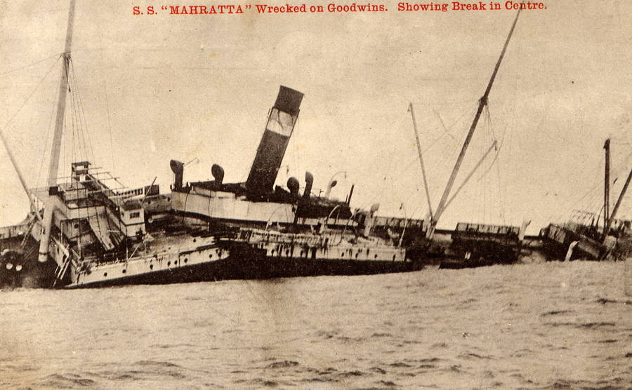 Wreck of the SS Mahratta on the Goodwin Sands from an old postcard.